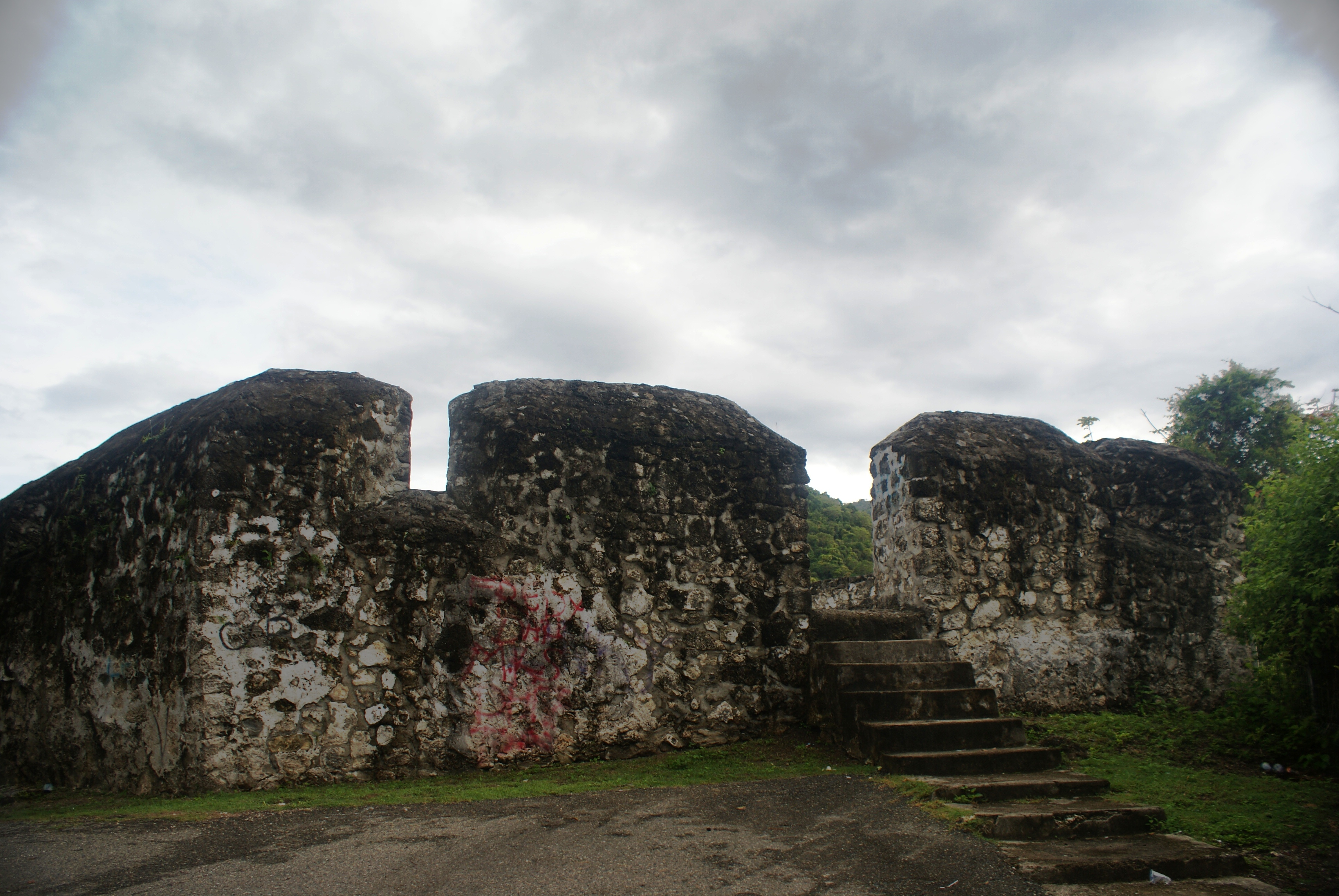 The front side of Otanaha Fortress, Gorontalo, Indonesia (2011)